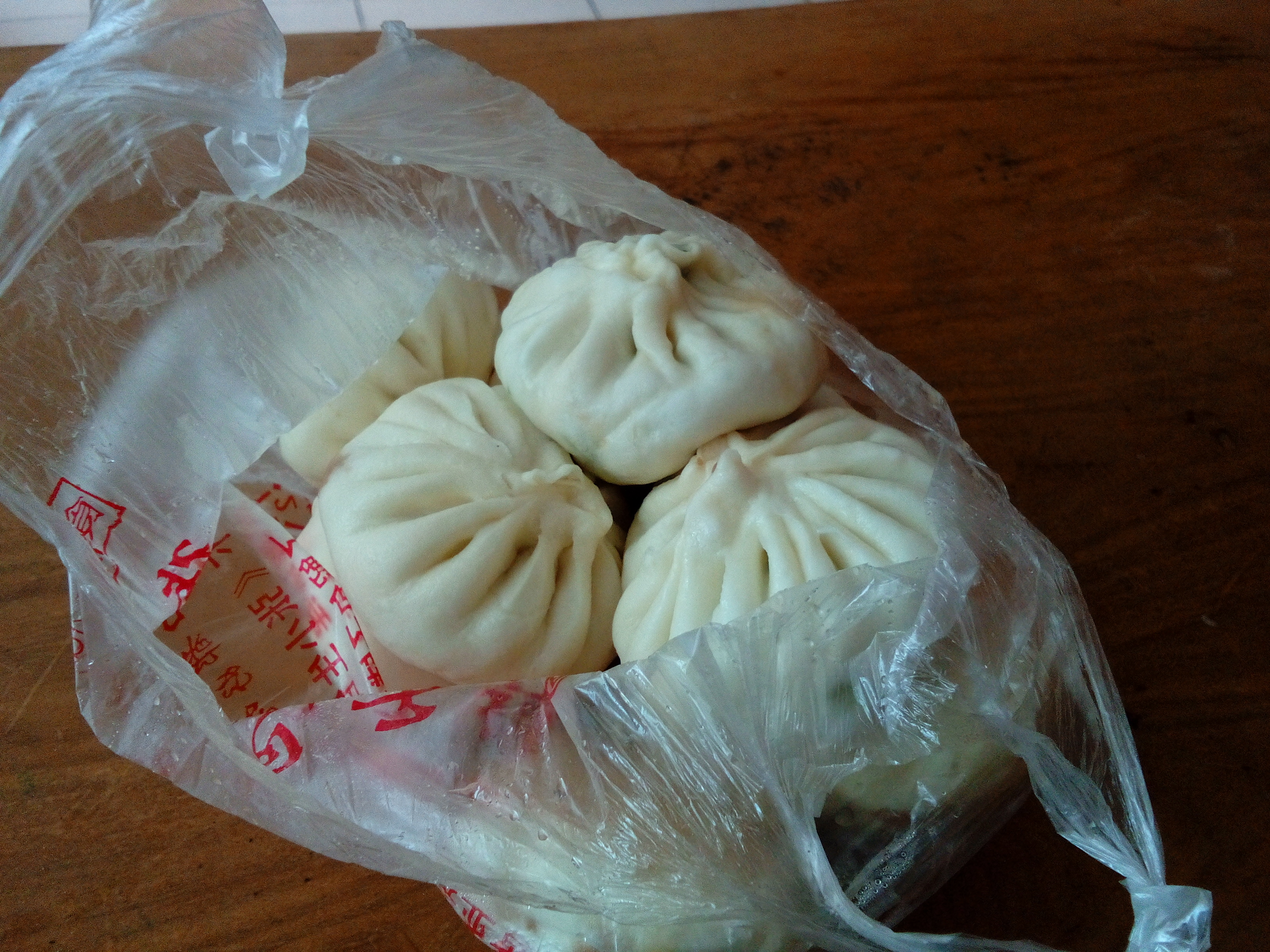 Zhang Xiaosheng baozi.